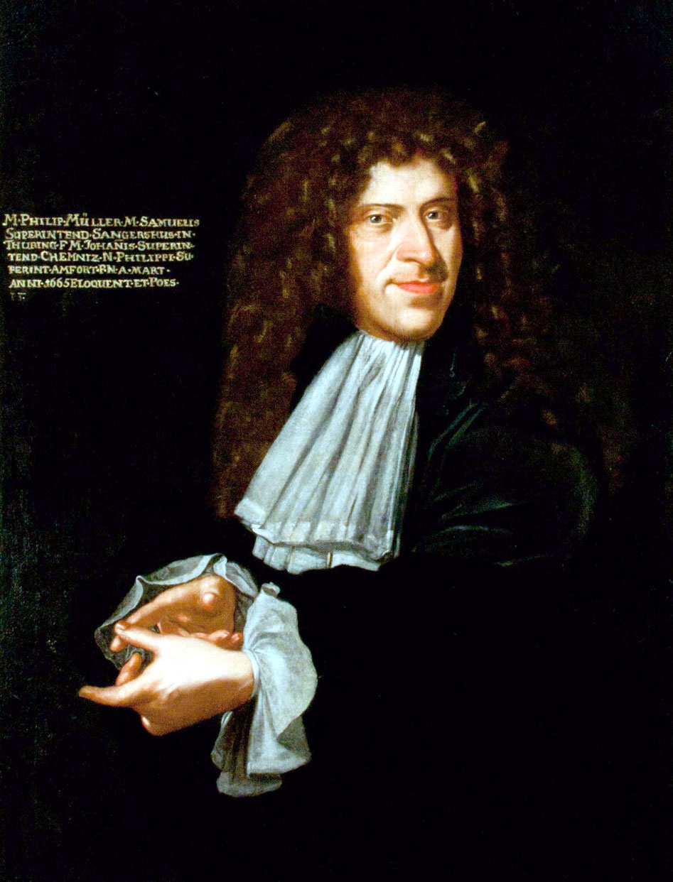 Philipp Müller also: Christian Sincerus (1640-1713) protestant Theologian